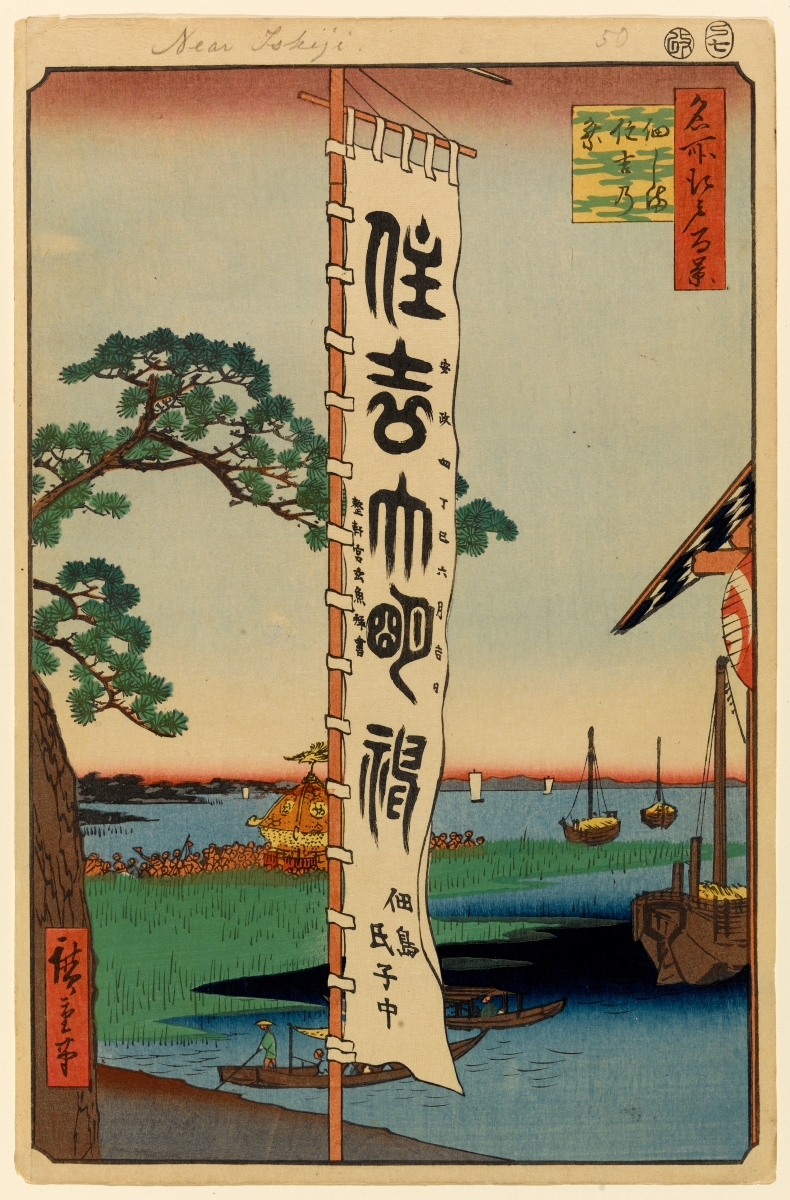 Part of the series One Hundred Famous Views of Edo, no. 055, part 2: Summer.